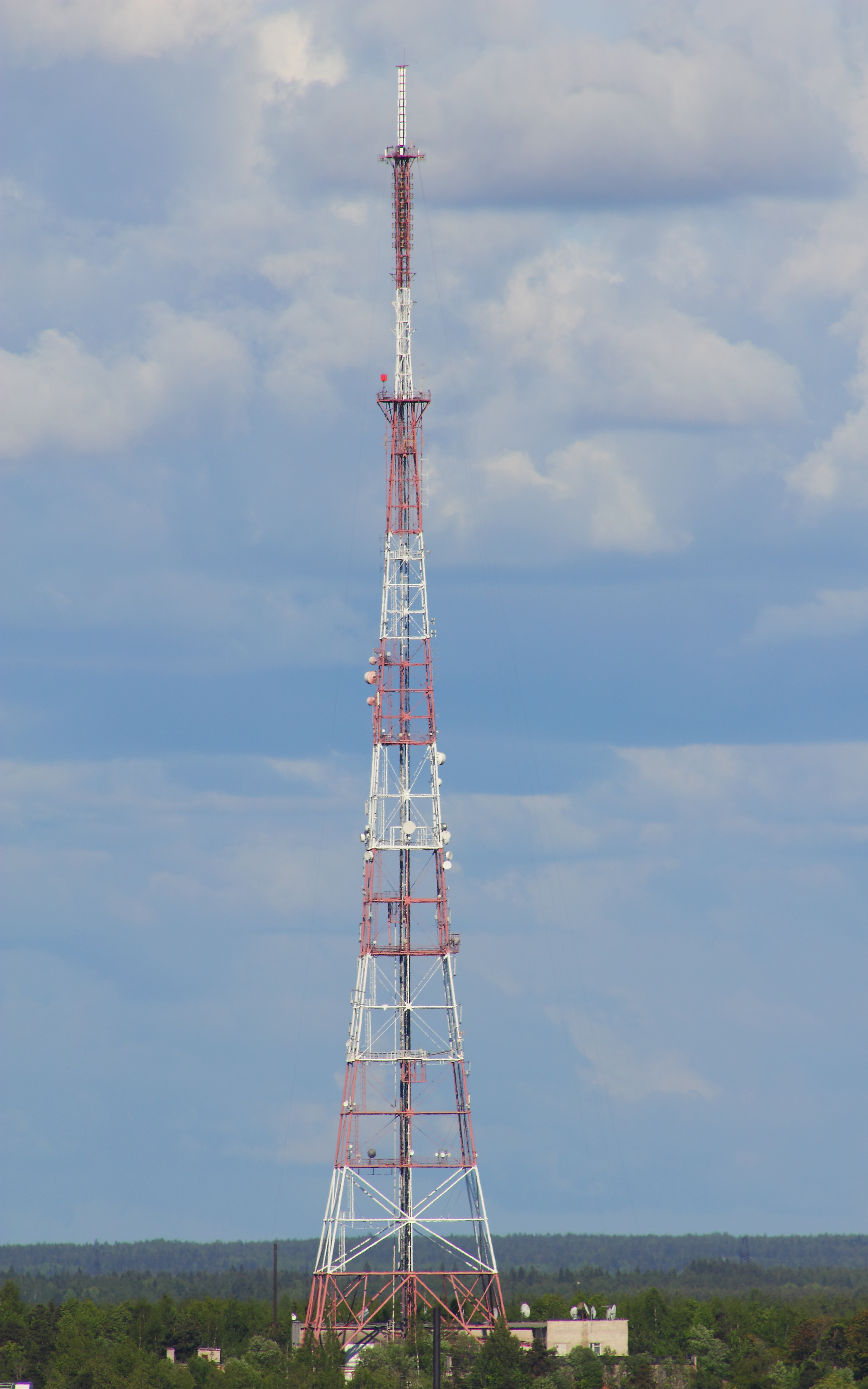 Vyborg (former Viipuri), Leningrad Oblast, Russia. Views from the Olaf Tower of the Vyborg Castle.